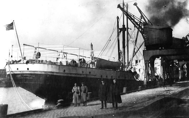 S.S. West Carnifax (American Freighter, 1918) In a European port, circa 1919. Note U.S. Navy officer and two armed guards on the wharf. This ship served as USS West Carnifax (ID # 3812) between the end of December 1918 and May 1919. Collection of Walter F. Merdian. Courtesy of his son, Walter M. Merdian, 1977. U.S. Naval Historical Center Photograph.